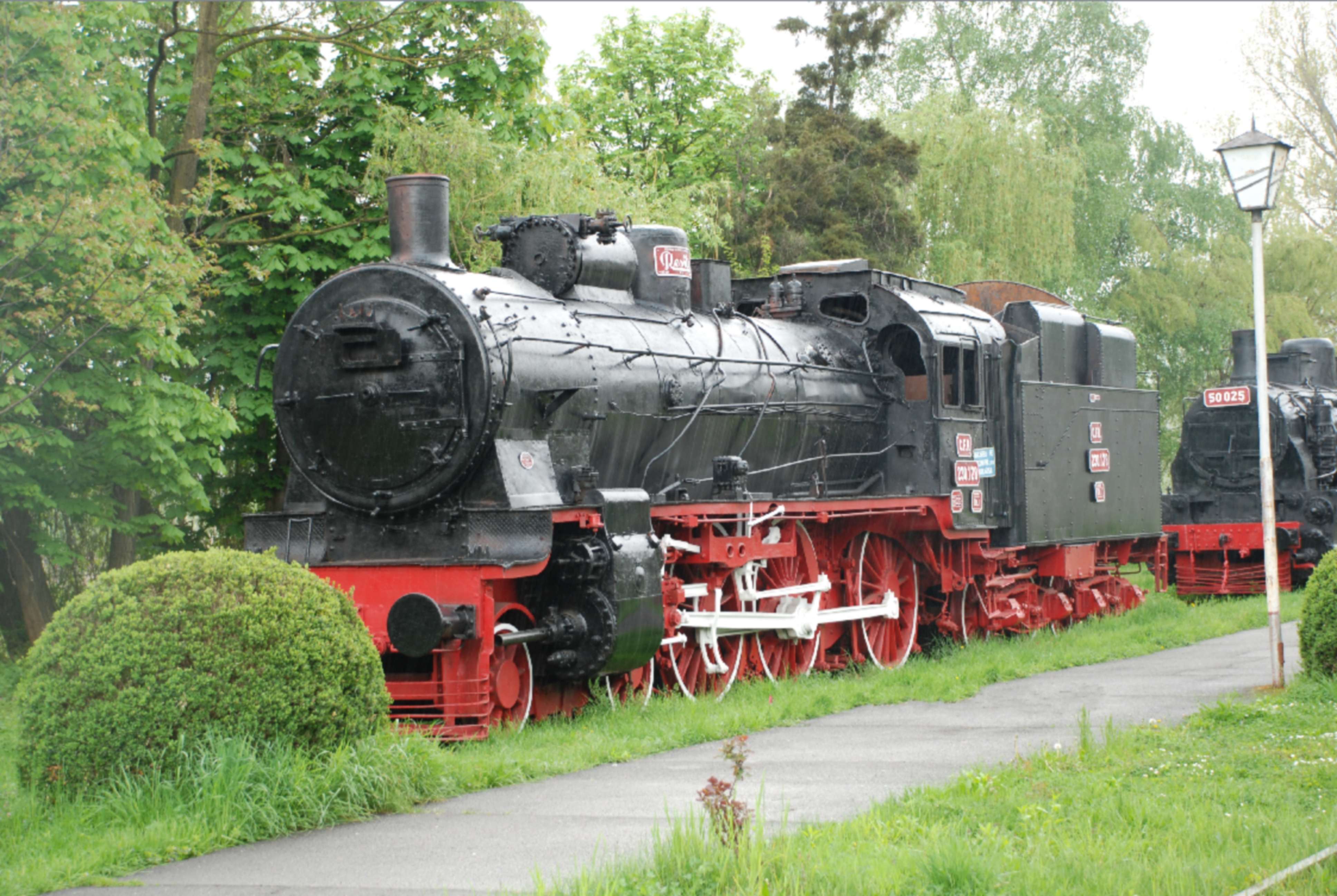 CFR 230.028 steam locomotive in Resita museum